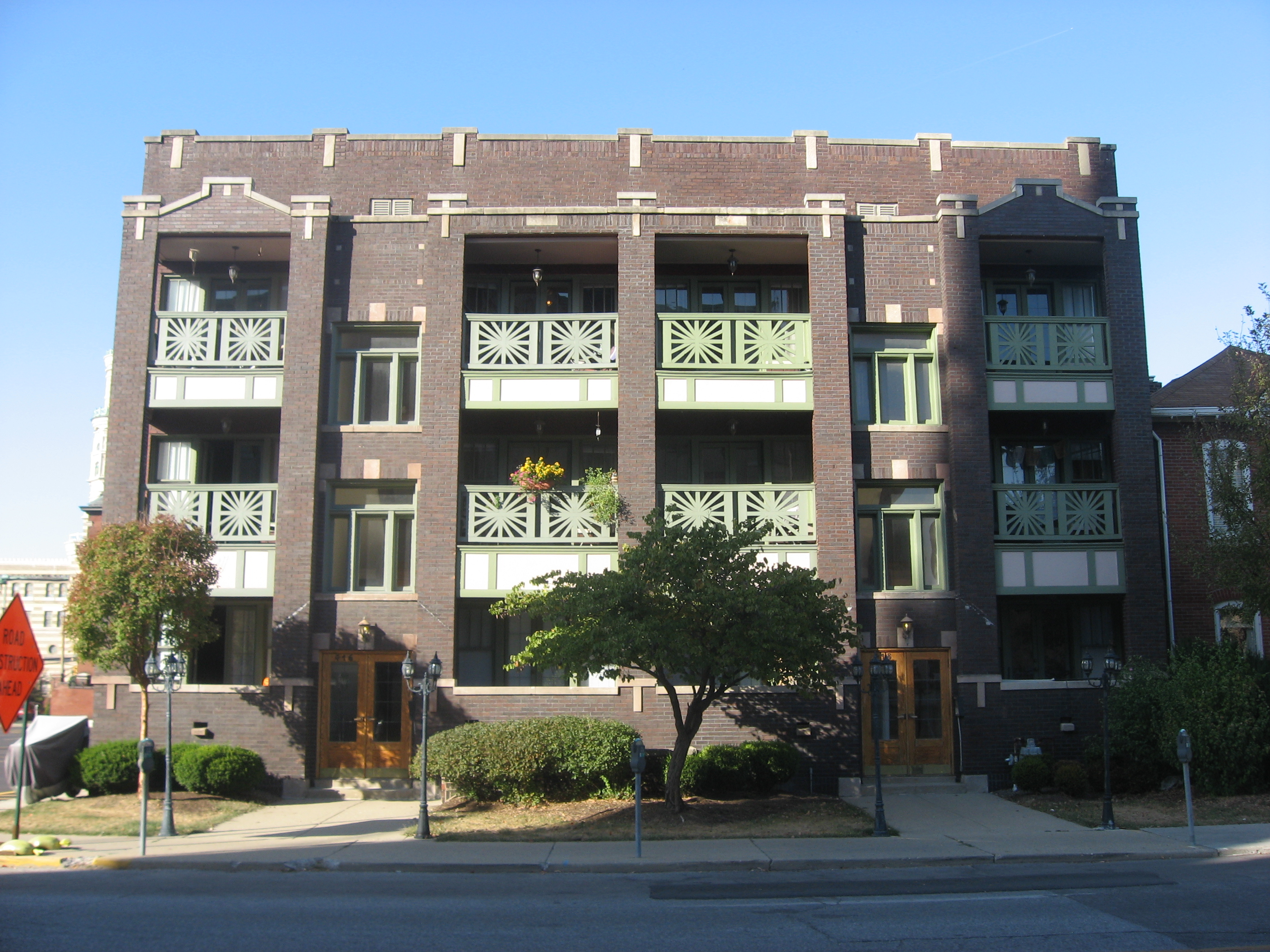 Front of The Mayleeno, located at 416-418 E. Vermont Street in Indianapolis, Indiana, United States. Built in 1914, it is listed on the National Register of Historic Places, and it lies within the boundaries of a Register-listed historic district, the Lockerbie Square Historic District.